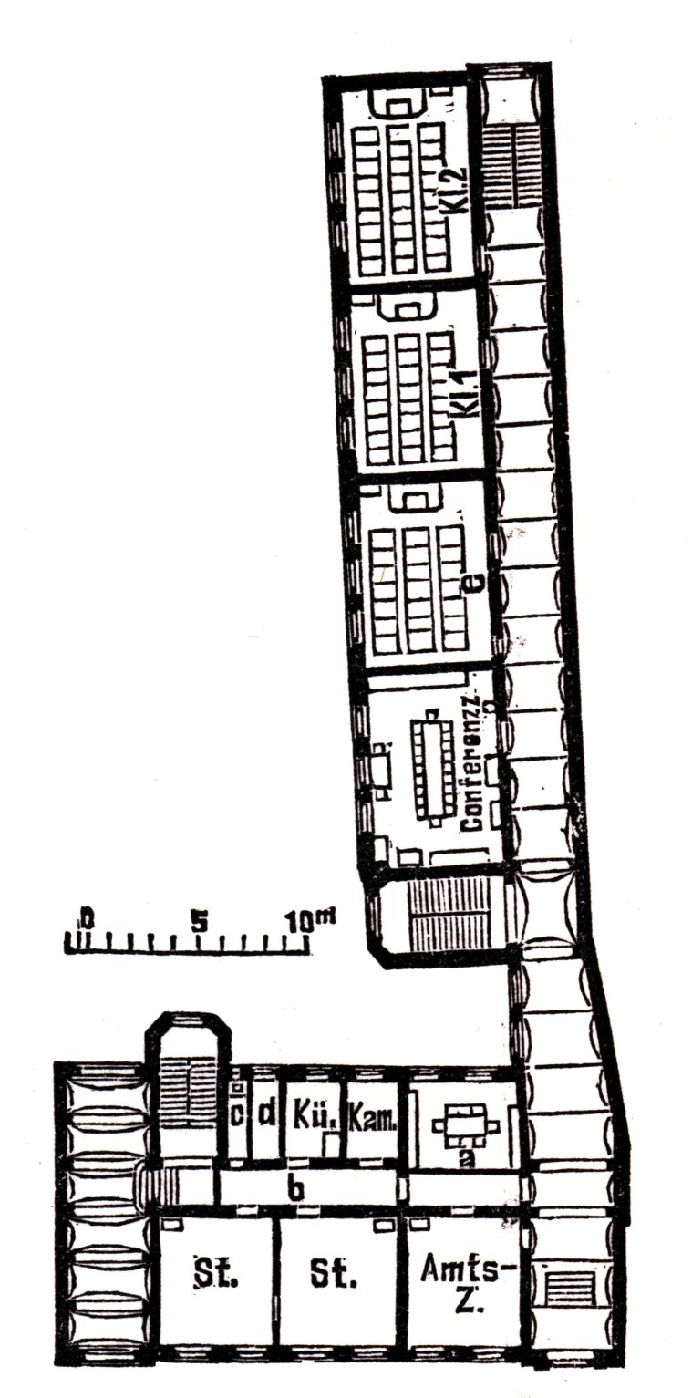 Berlin - 1. Realschule, plan ground floor